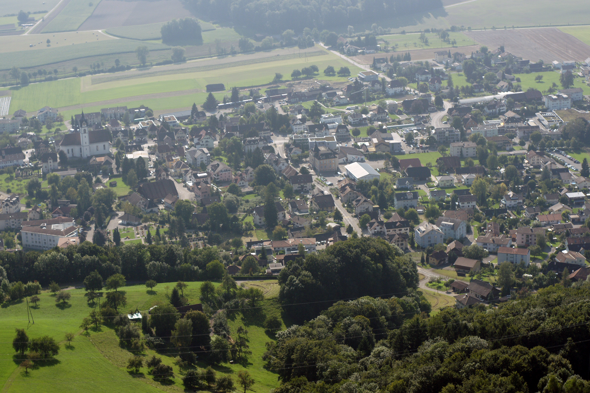 aerial photo of Triengen 2008